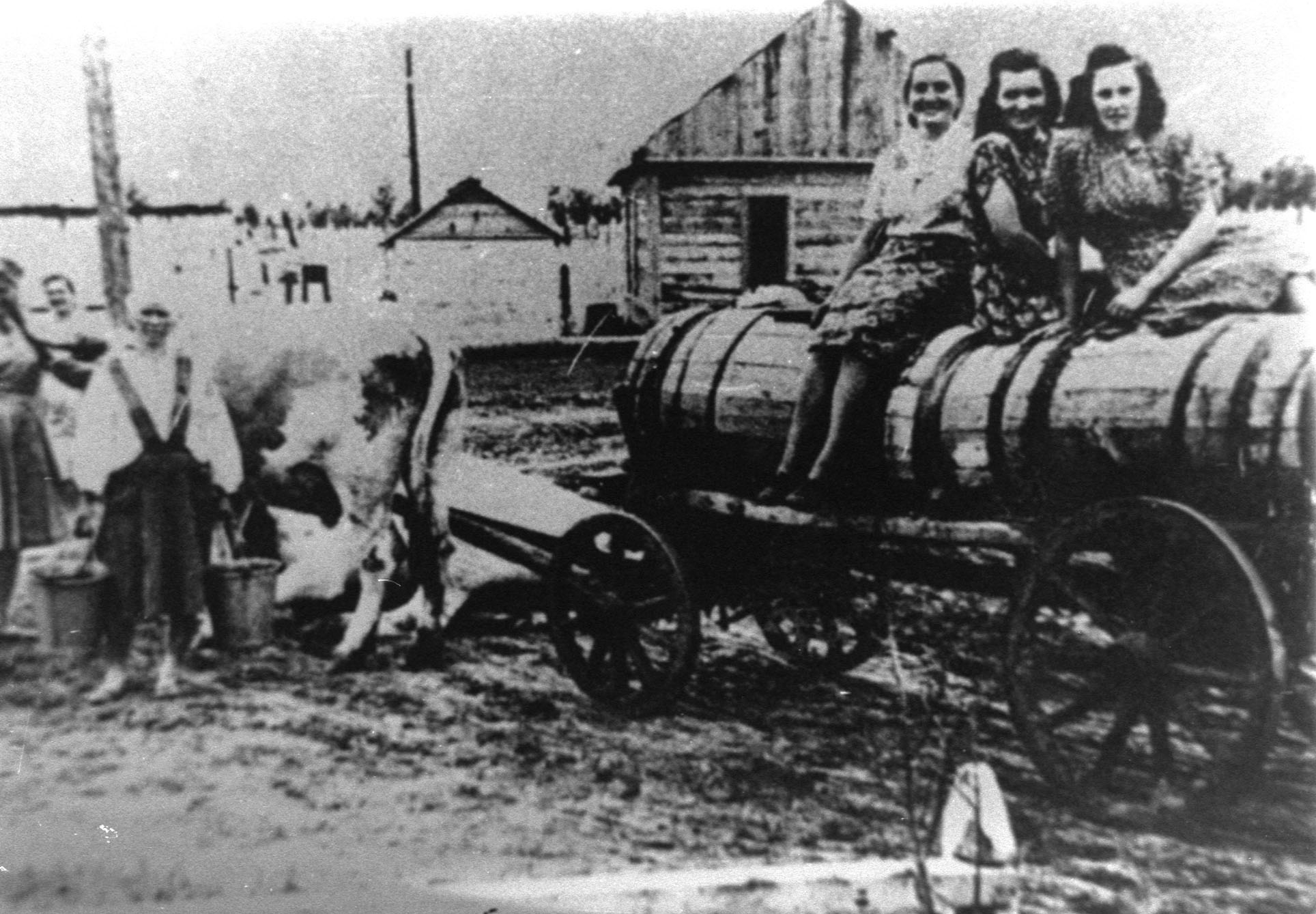 Albina Norkutė (first on the right) in lager (Siberia)